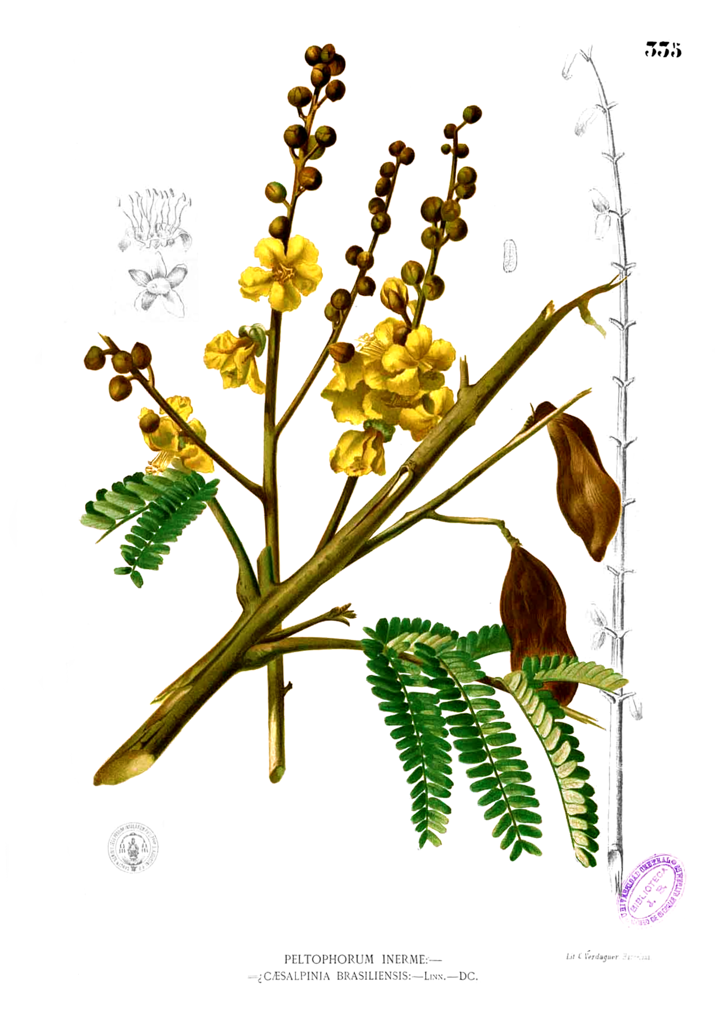 Plate from book